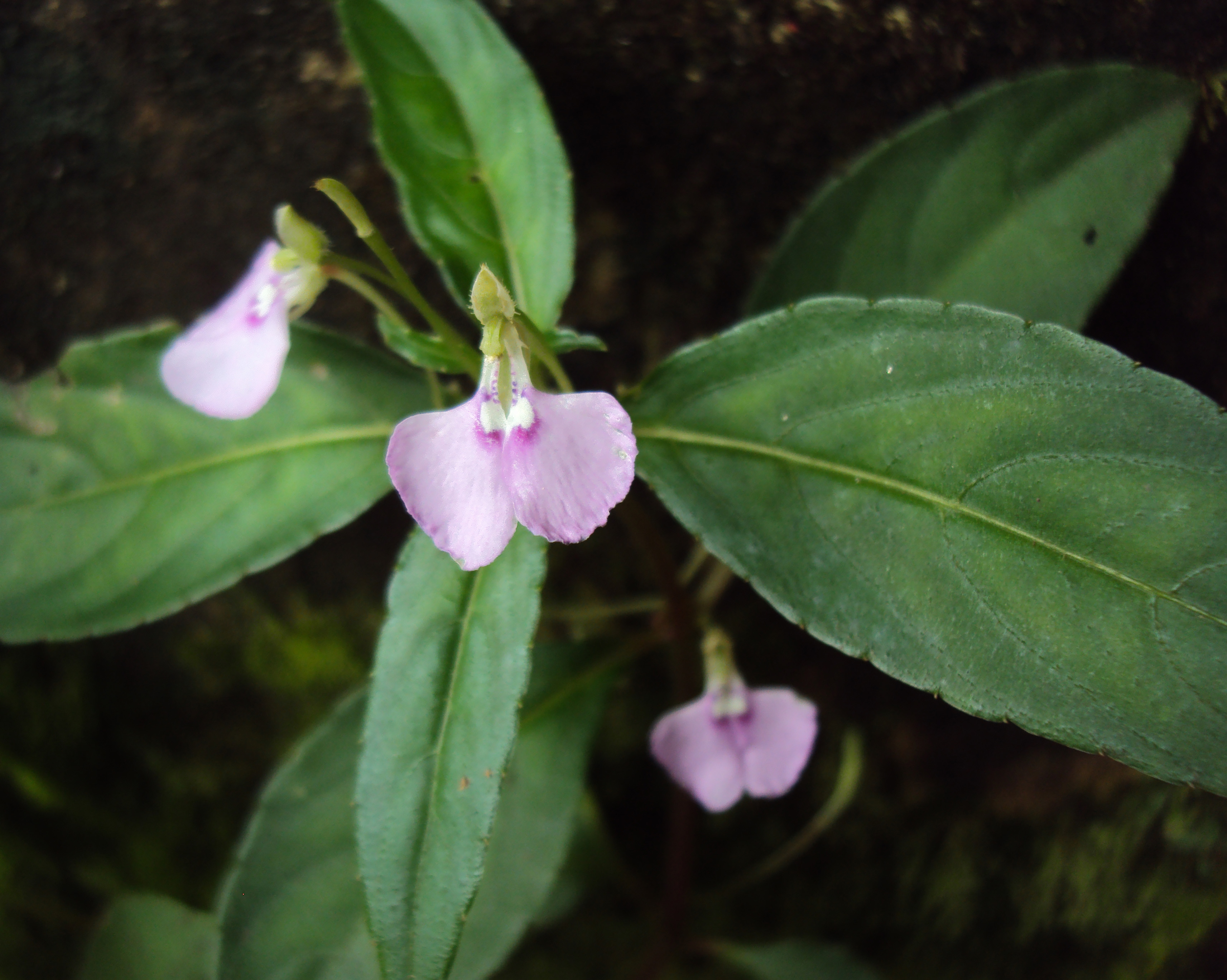 Impatiens minor